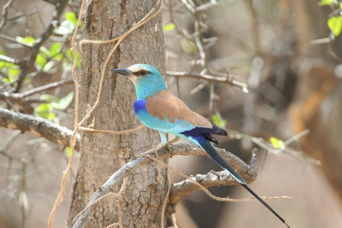 Abyssinian Roller in Saly, Senegal.